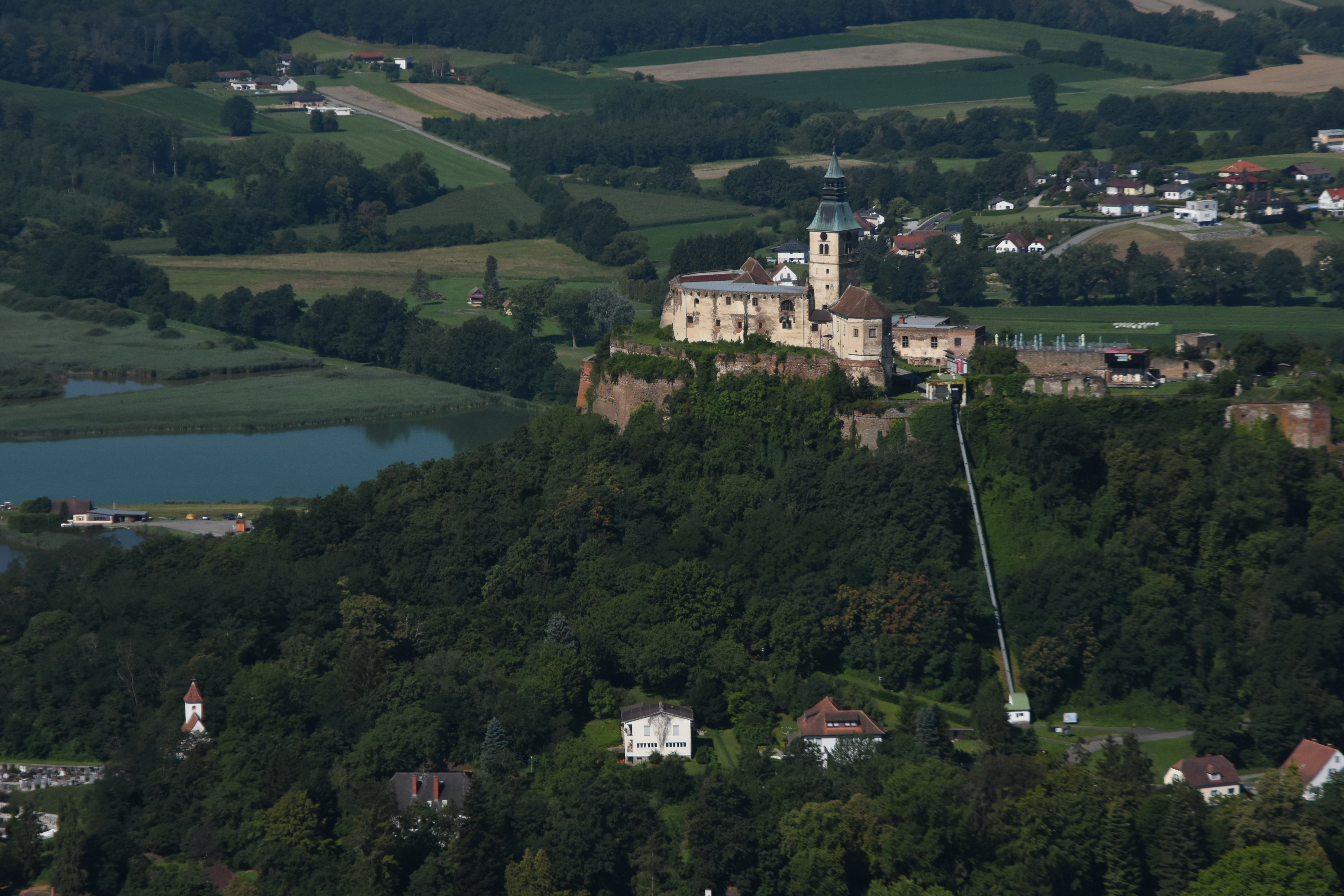 Güssing Castle